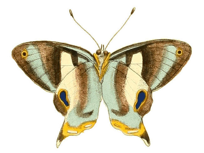 Extract from Plate XII. ERYCINA BAUCIS (= Abisara gerontes). Underside.